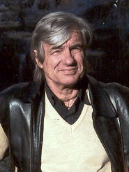 Jean-Pierre Petit